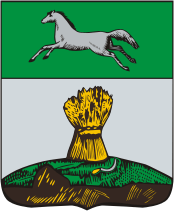 Kolyvan (Novosibirsk oblast), coat of arms (1846)